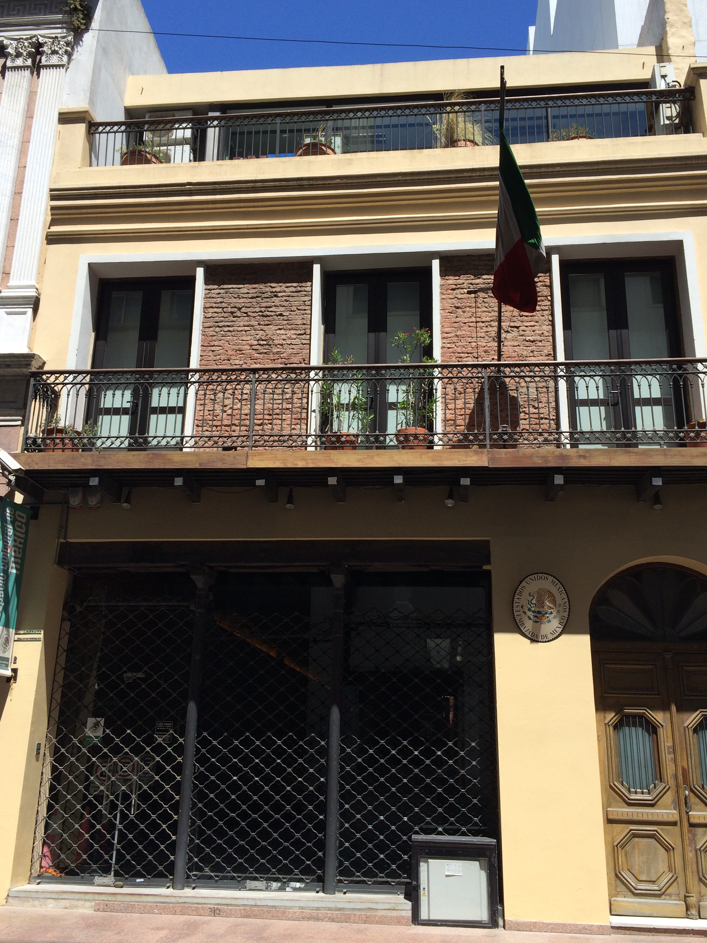 Embassy of Mexico in Montevideo, Uruguay